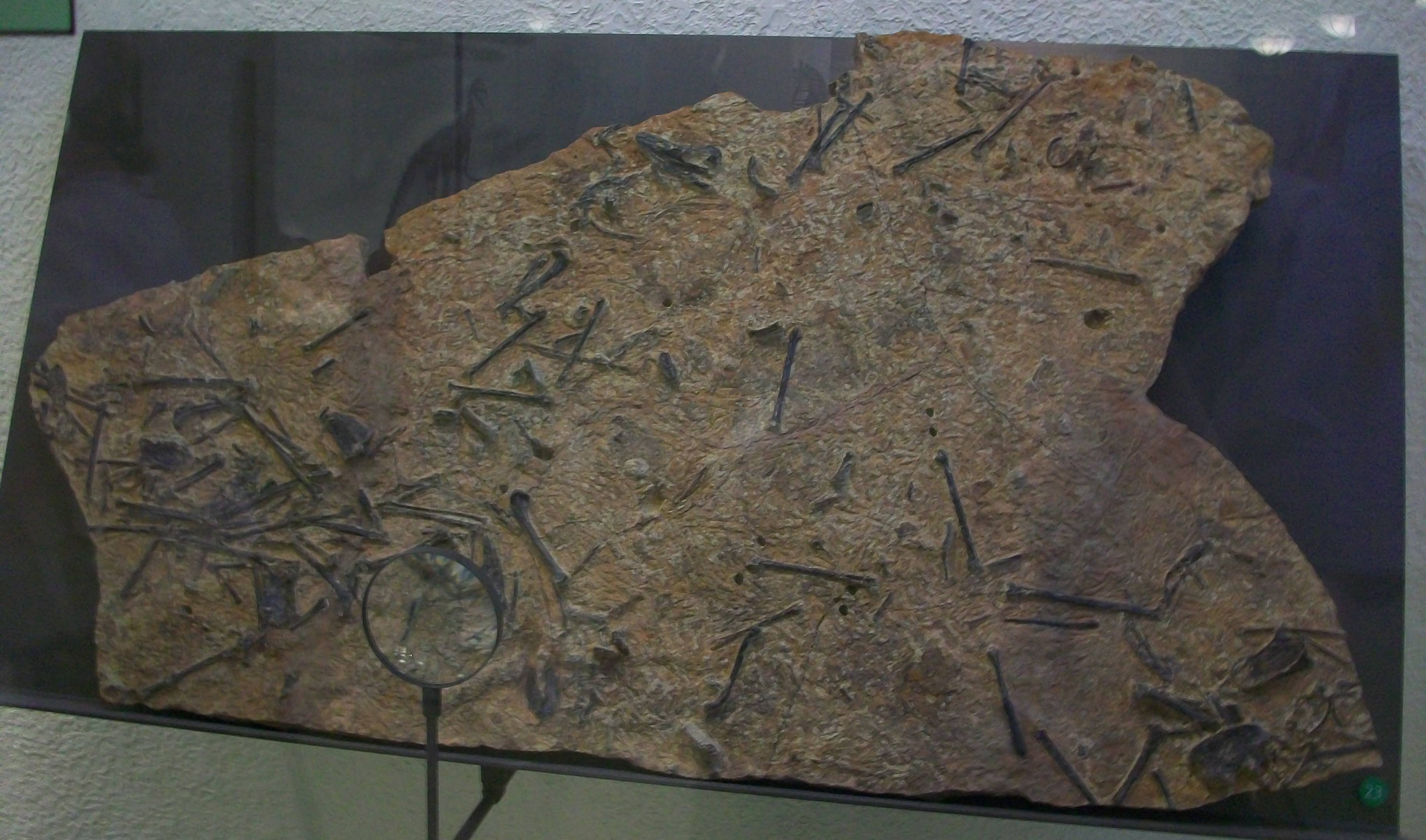 An assemblage of Presbyornis pervetus skeletons (specimen AMNH 28505) in the American Museum of Natural History.